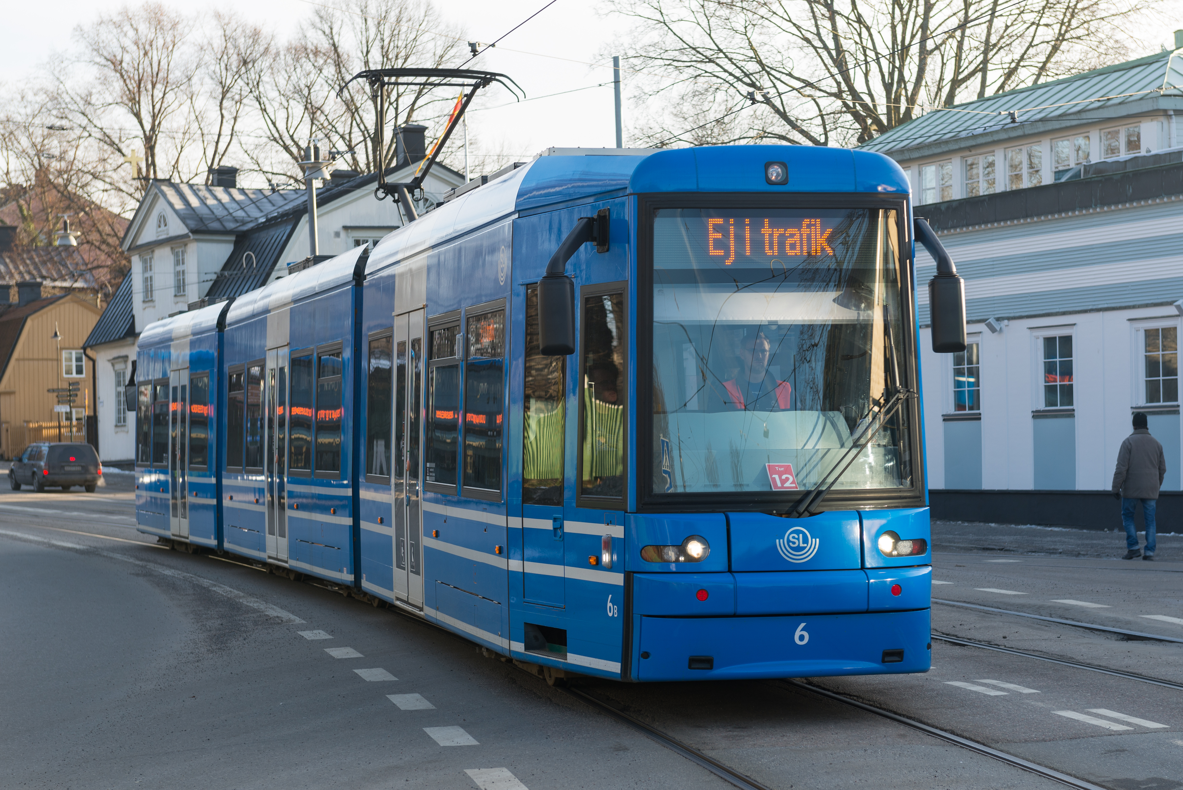 Tram of type A34, which is the Swedish designation for the Flexity Classic, Djurgårdsvägen, Djurgården, Stockholm.